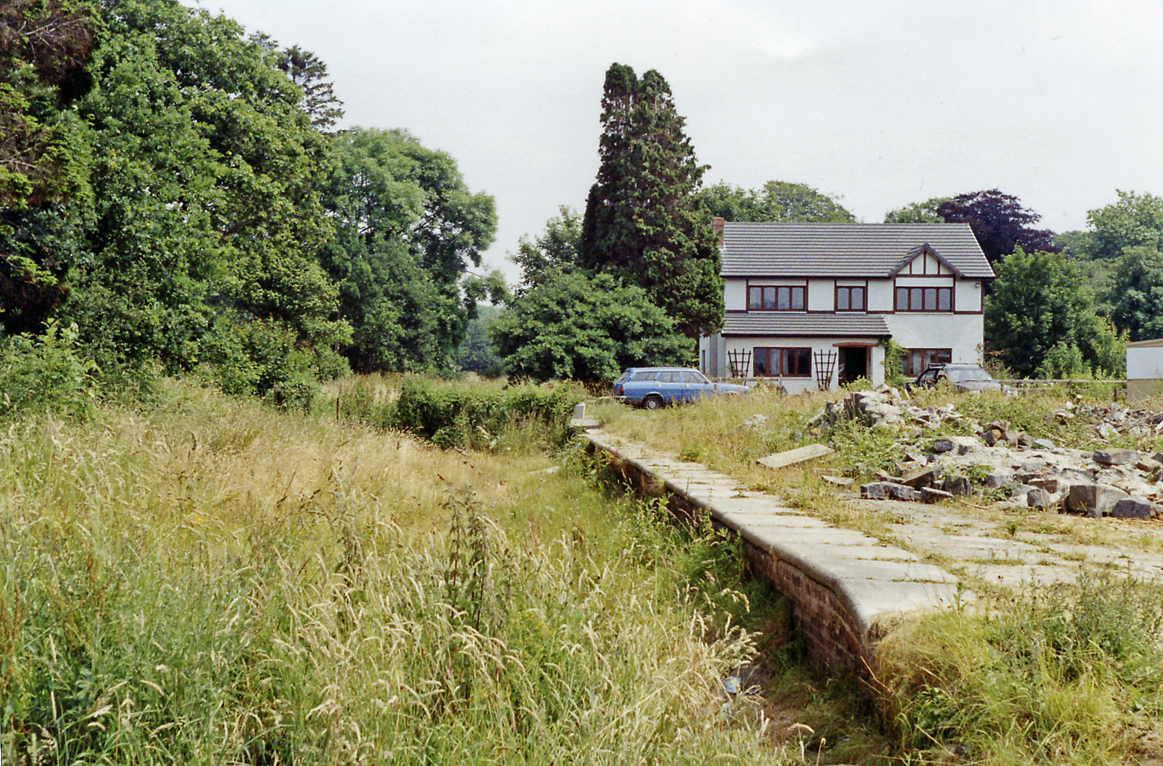 Abergwili station (remains). View eastward, towards Llandilo: ex-LNWR Llandilo - Carmarthen branch, all closed 9/9/63. The house appears to be newer.